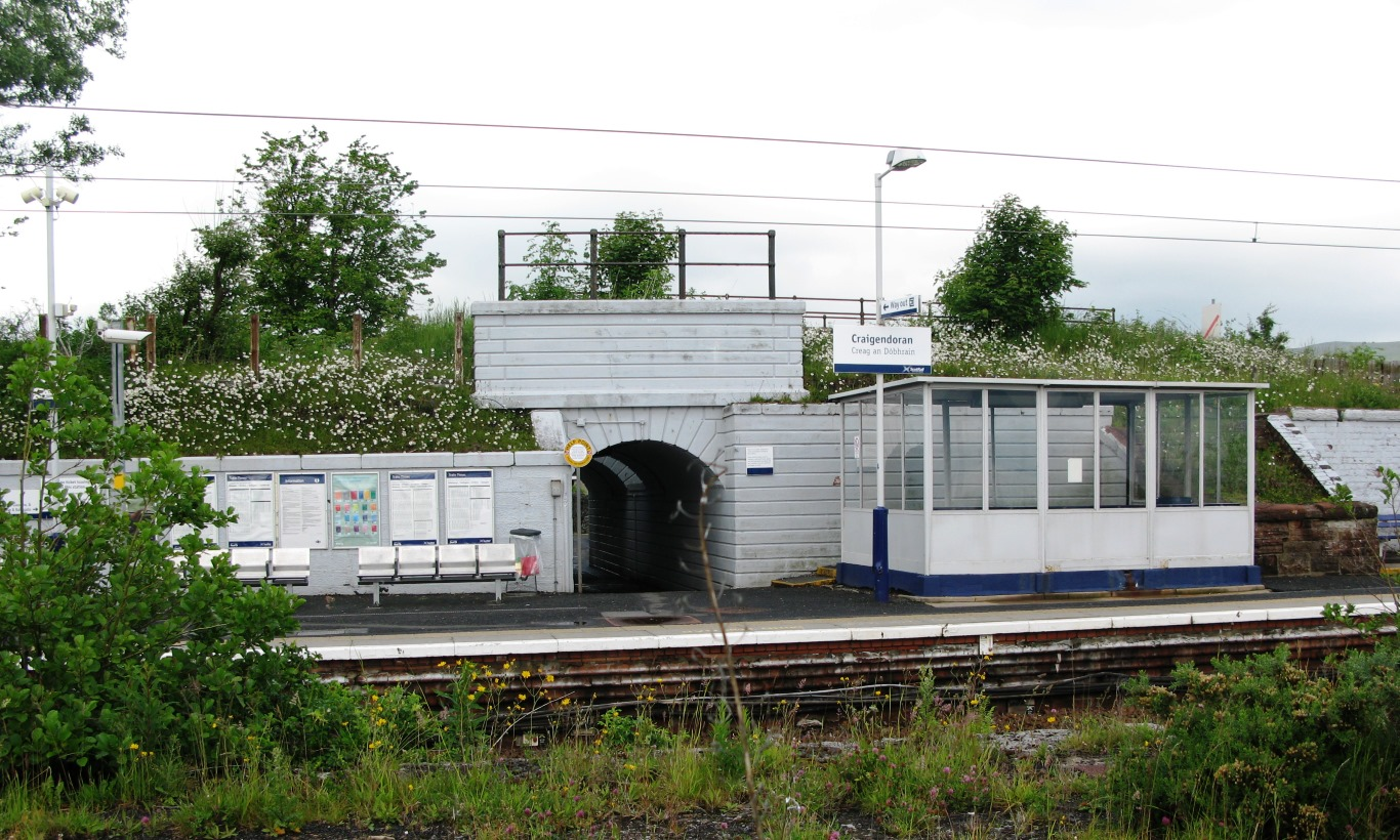 Craigendoran railway station is on the North Clyde Line at Helensburgh. The embankment behind the platform carries the West Highland Line.